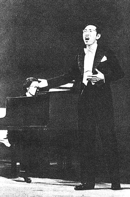 Kim Young-gil (Singer)